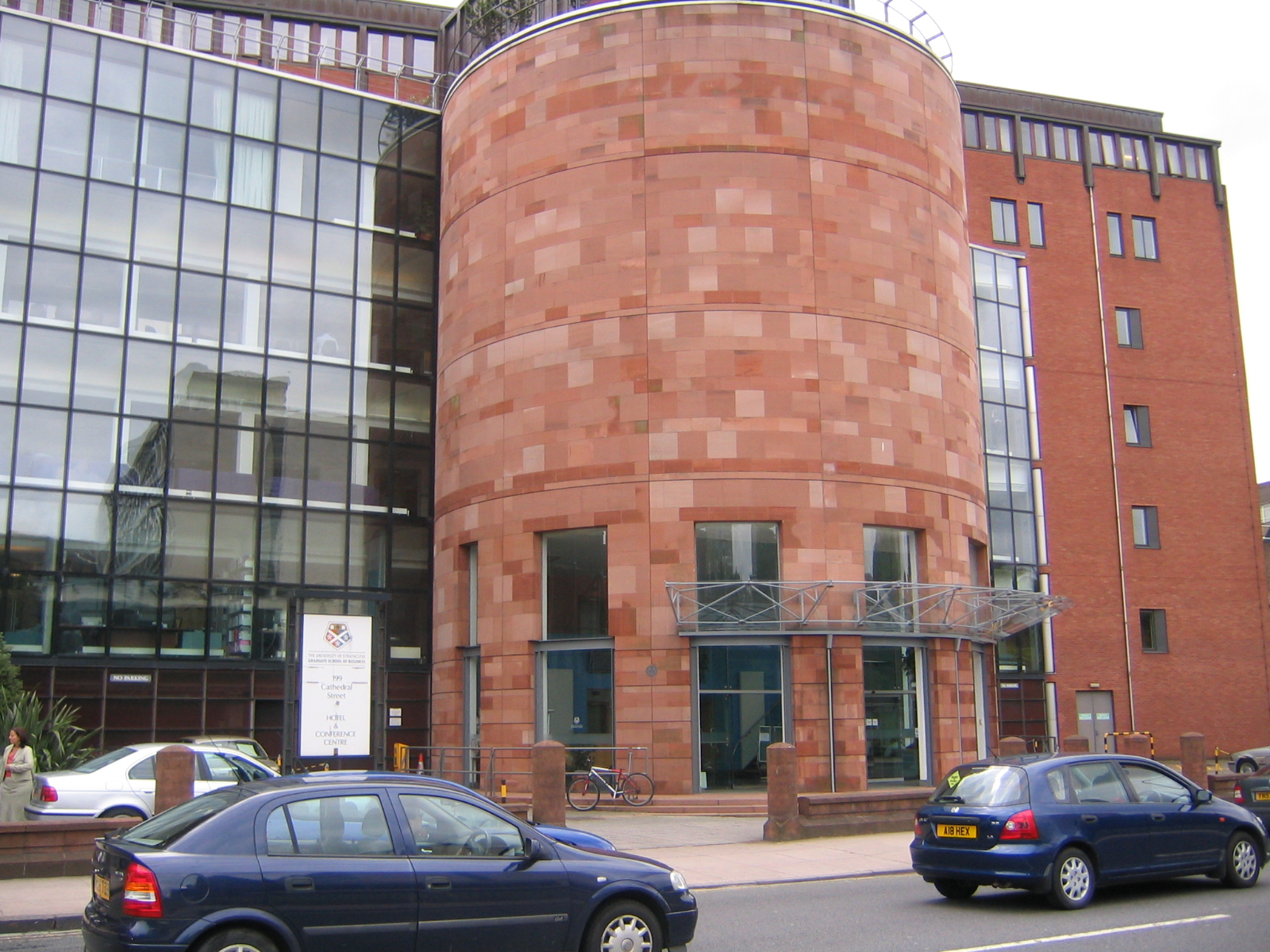 Strathclyde Business School This picture was taken by Papertree on July 4th 2005 after the graduation ceremony. I wish to release this picture in the public domain.